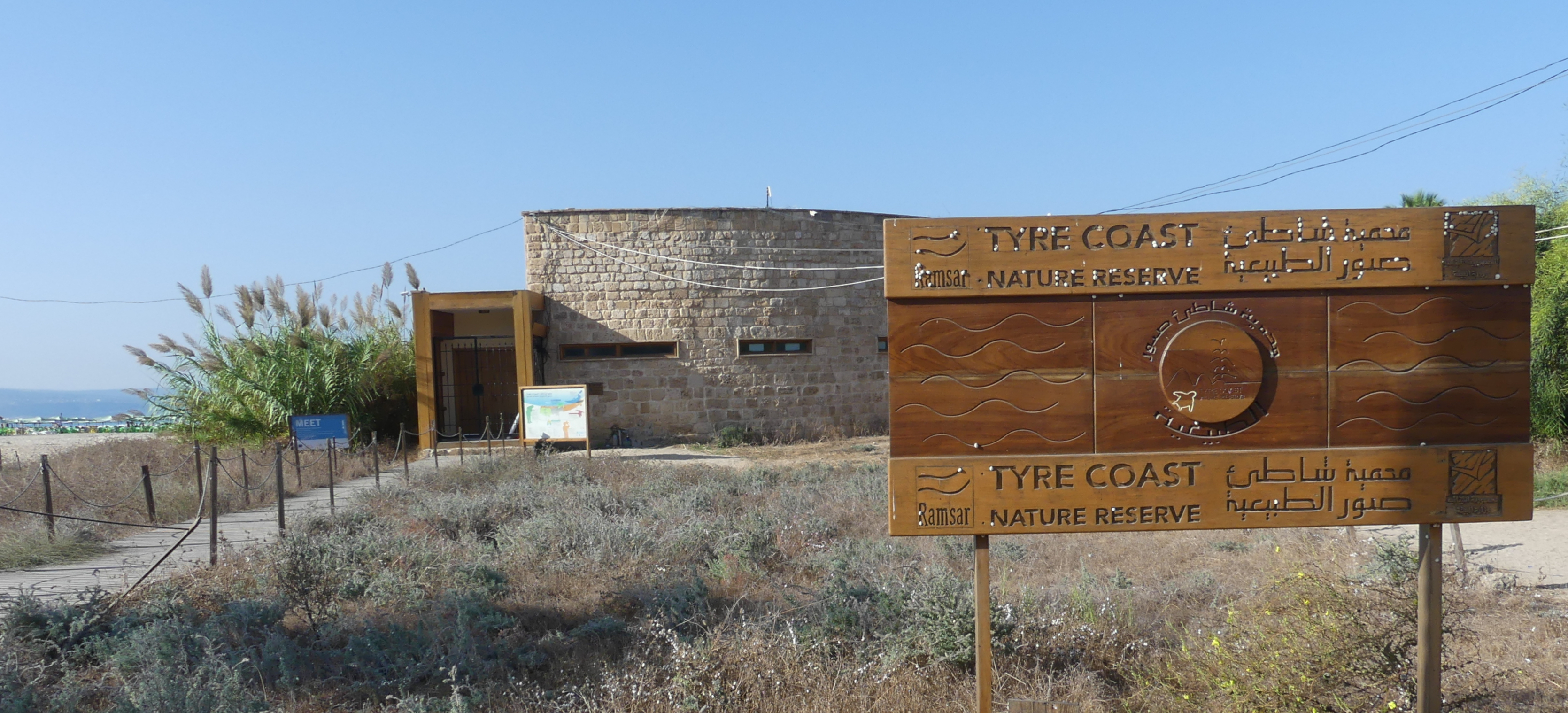 Tyre Coast Nature Reserve: information station at the public beach in Tyre/Sour, Southern Lebanon